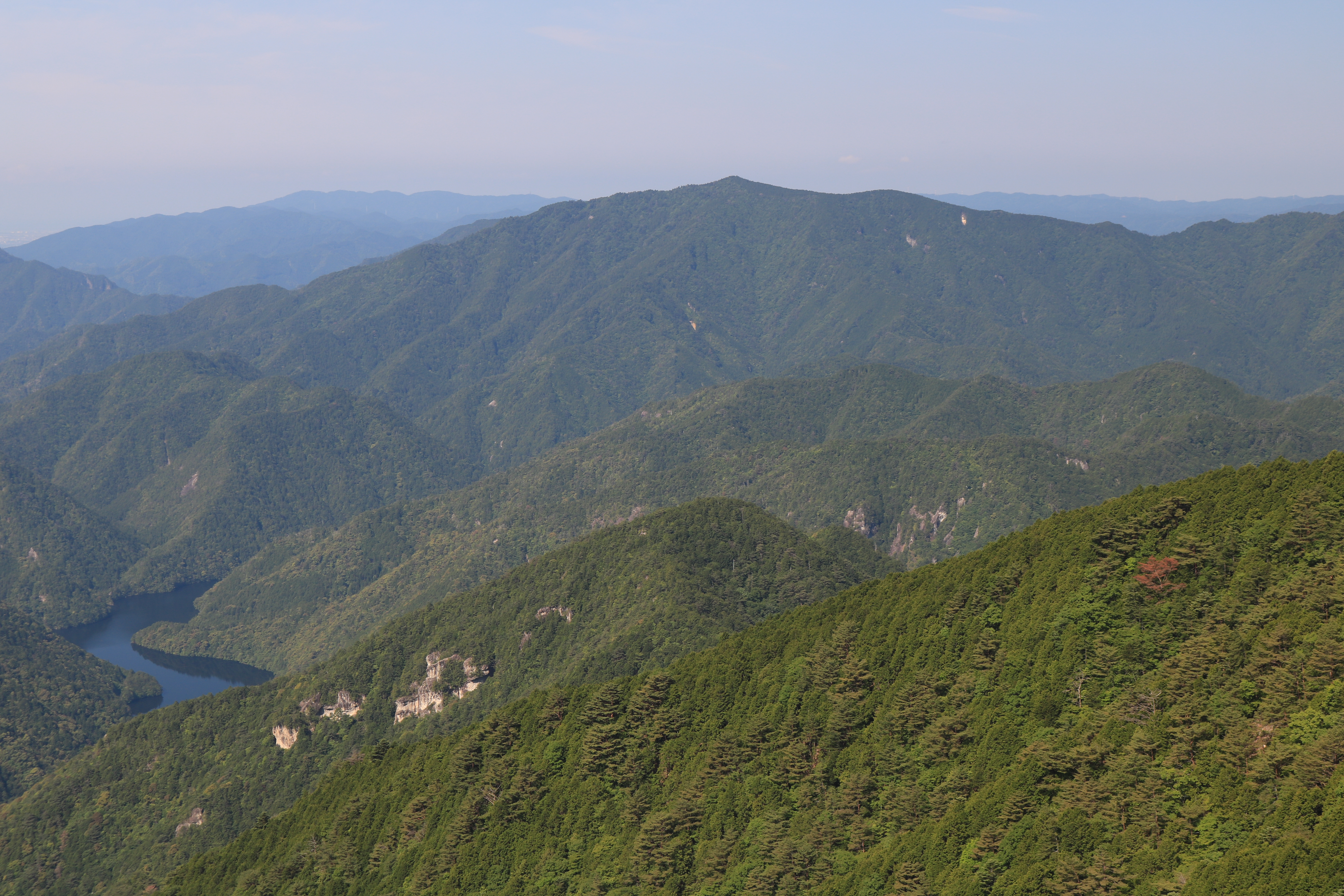 Mount Ure seen from Mount Mitsusemyojin in Shinshiro, Aichi Prefecture, Japan.